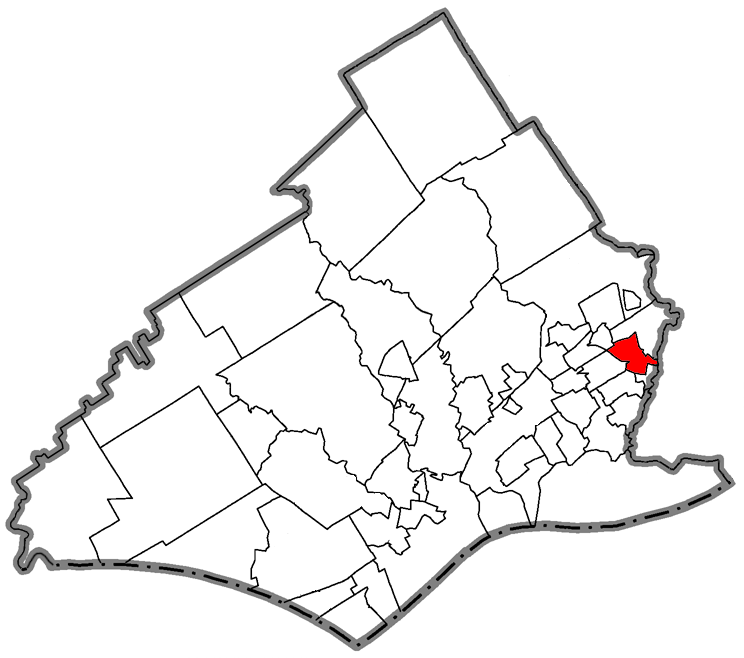 Showing the location within Delaware County, Pennsylvania.